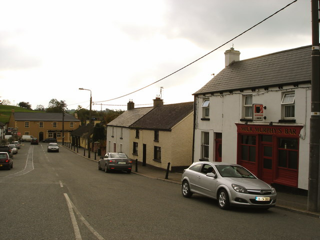 Main Street, Ballymore Eustace, Co Kildare. The building at the end of the street and to its right plus the one on the right are the other three Ballymore pubs - see also N9210. There is a large field just outside the village which is often used for film sets. Parts of Braveheart and King Arthur were both filmed here.